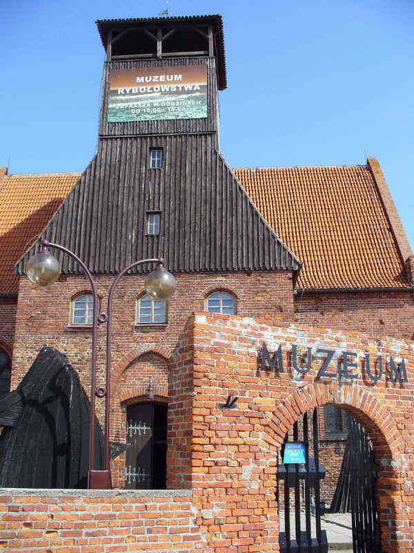 from Polish wiki picture by [1]